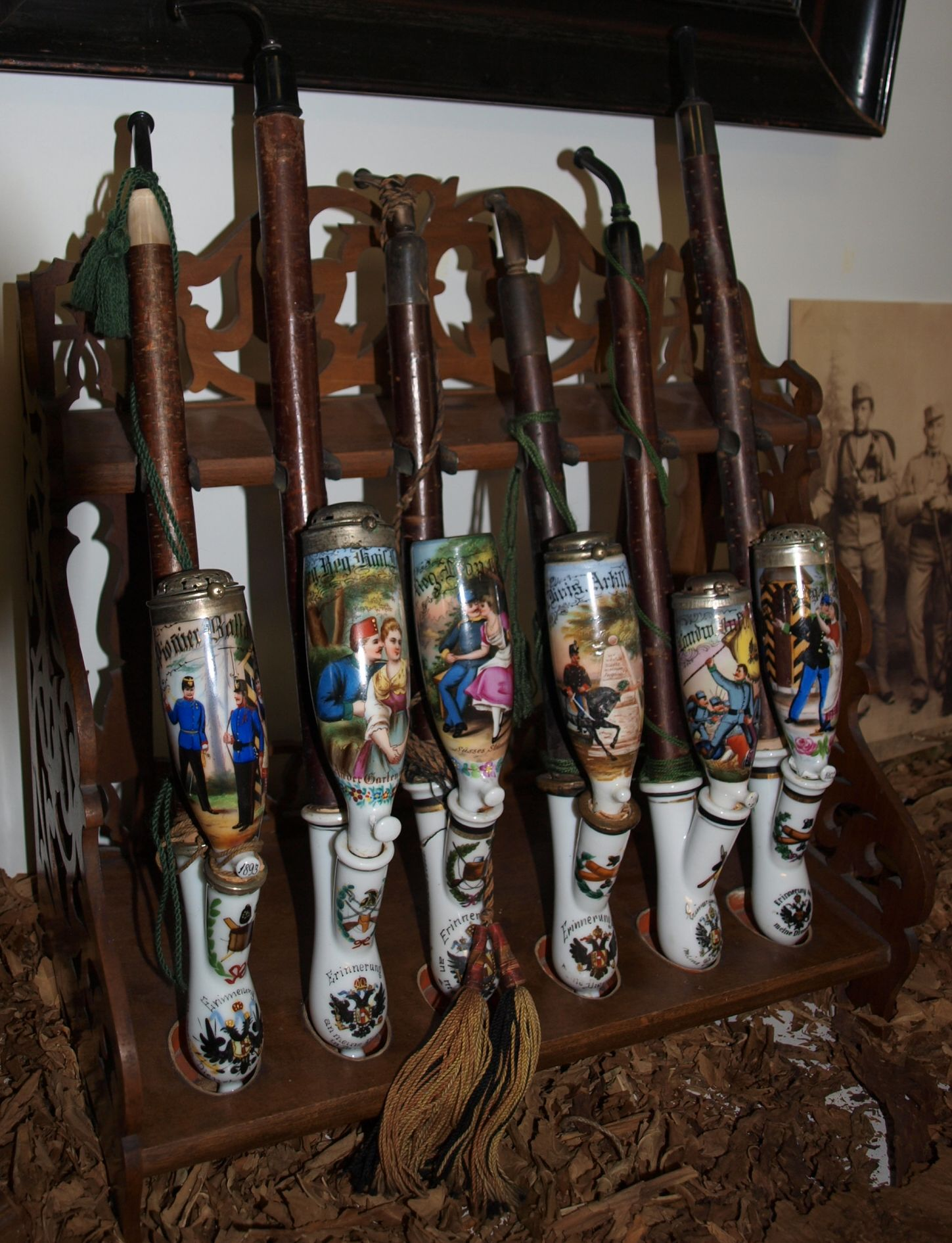 Tobacco Museum in Frastanz, Town Hall - tobacco whistle